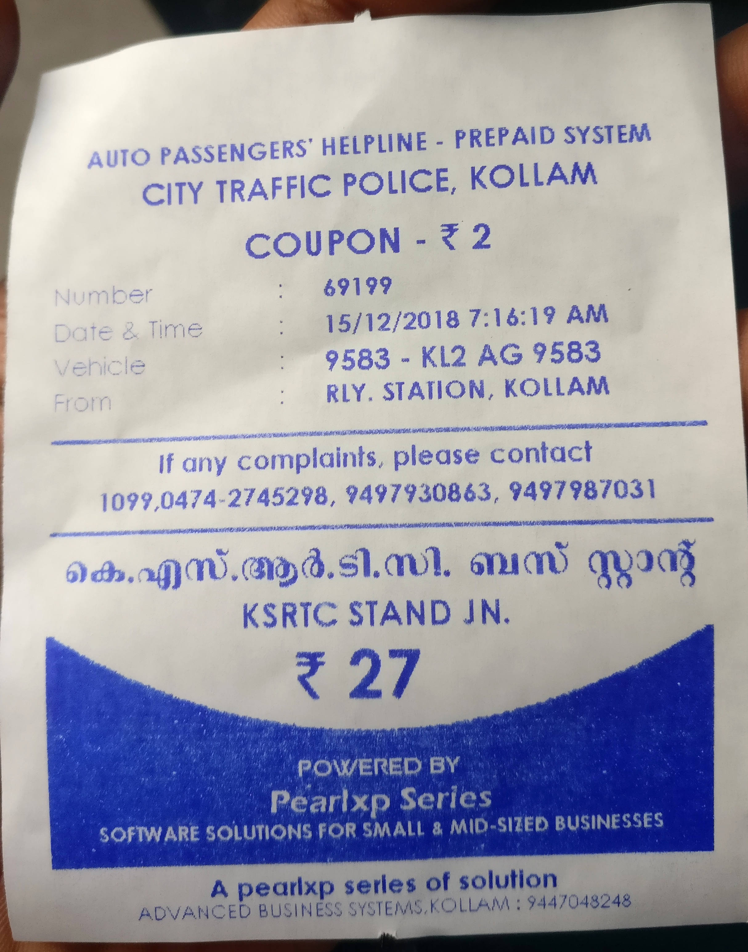 Kollam city has several prepaid autorickshaw counters for the public.